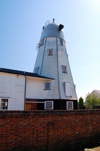 Former smock mill at Terling, Essex, now converted into a private house